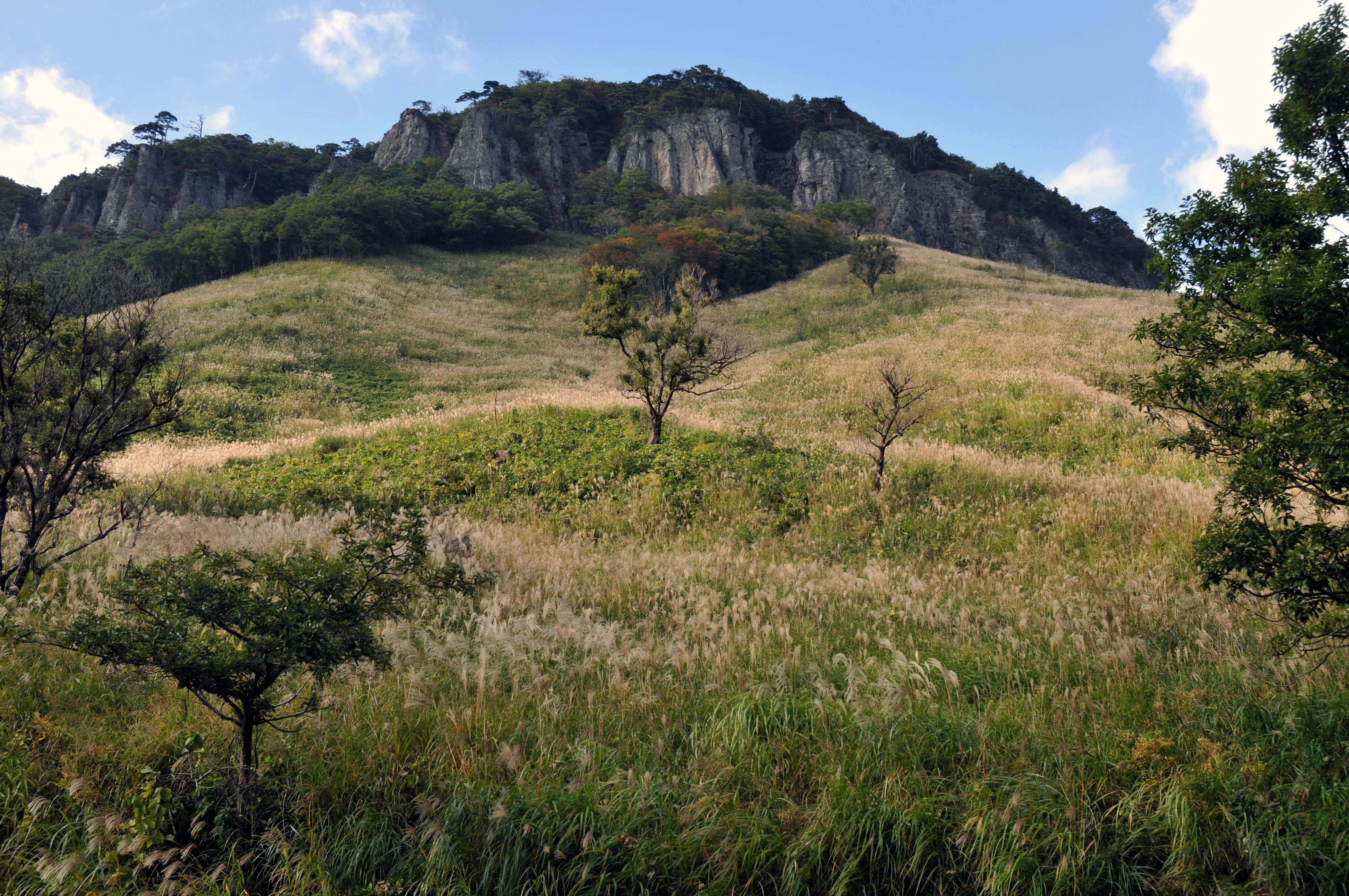 Byobu-iwa rock and Japanese pampas grass at Mt. Senjo